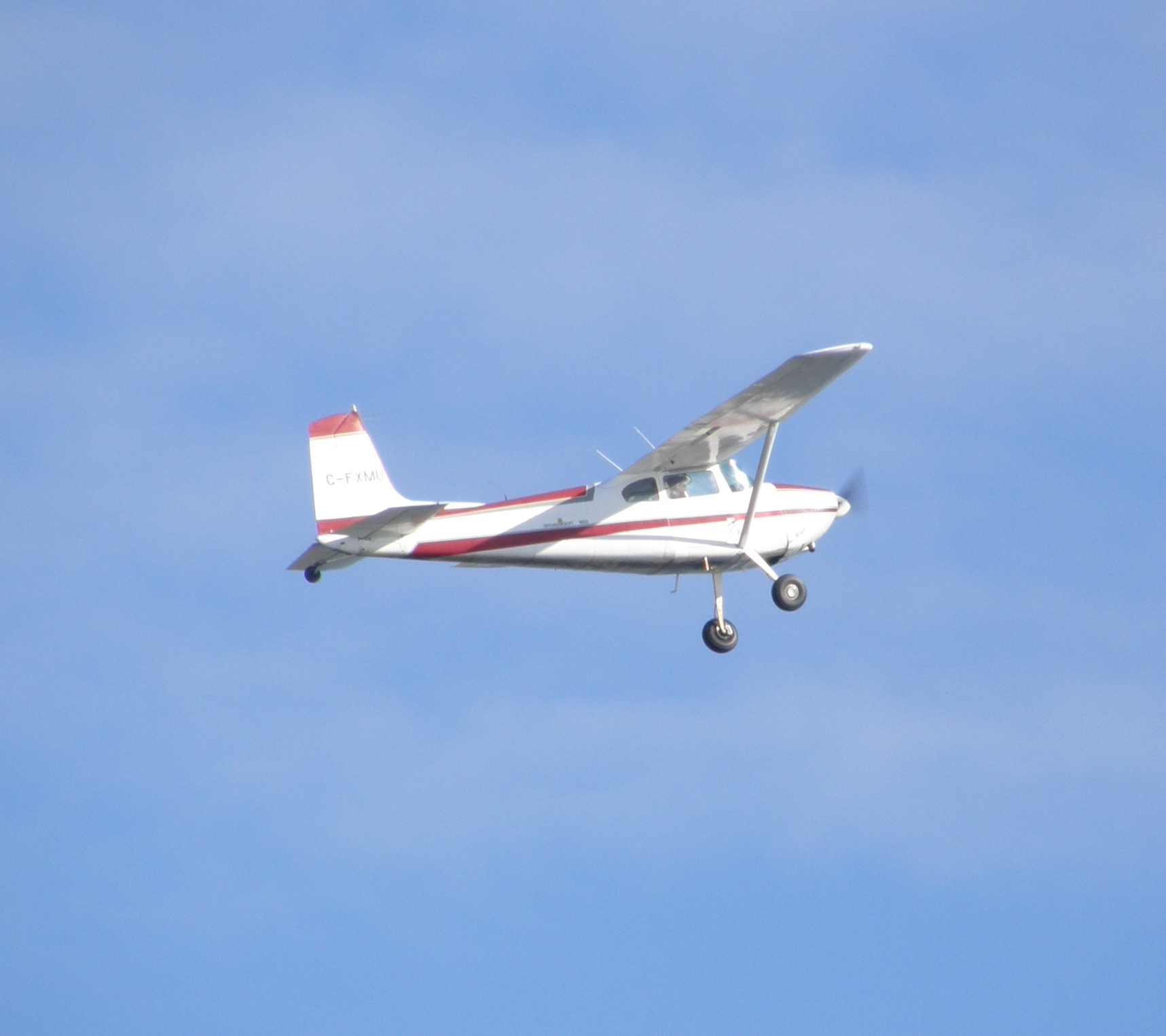 A Cessna 180 landing at Point Roberts Airpark